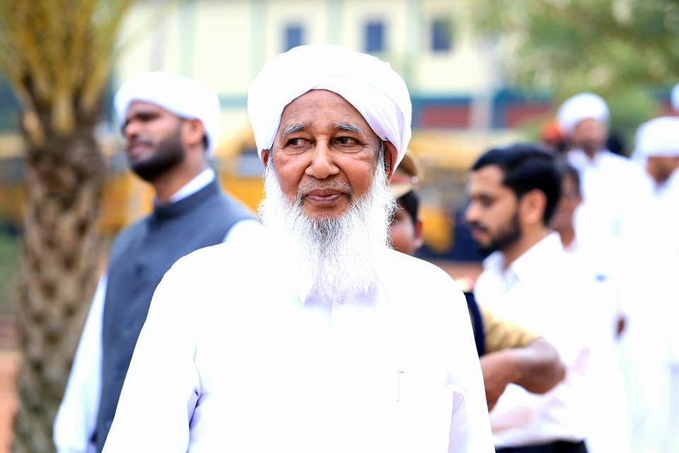 Sheikh Aboobacker Ahmed